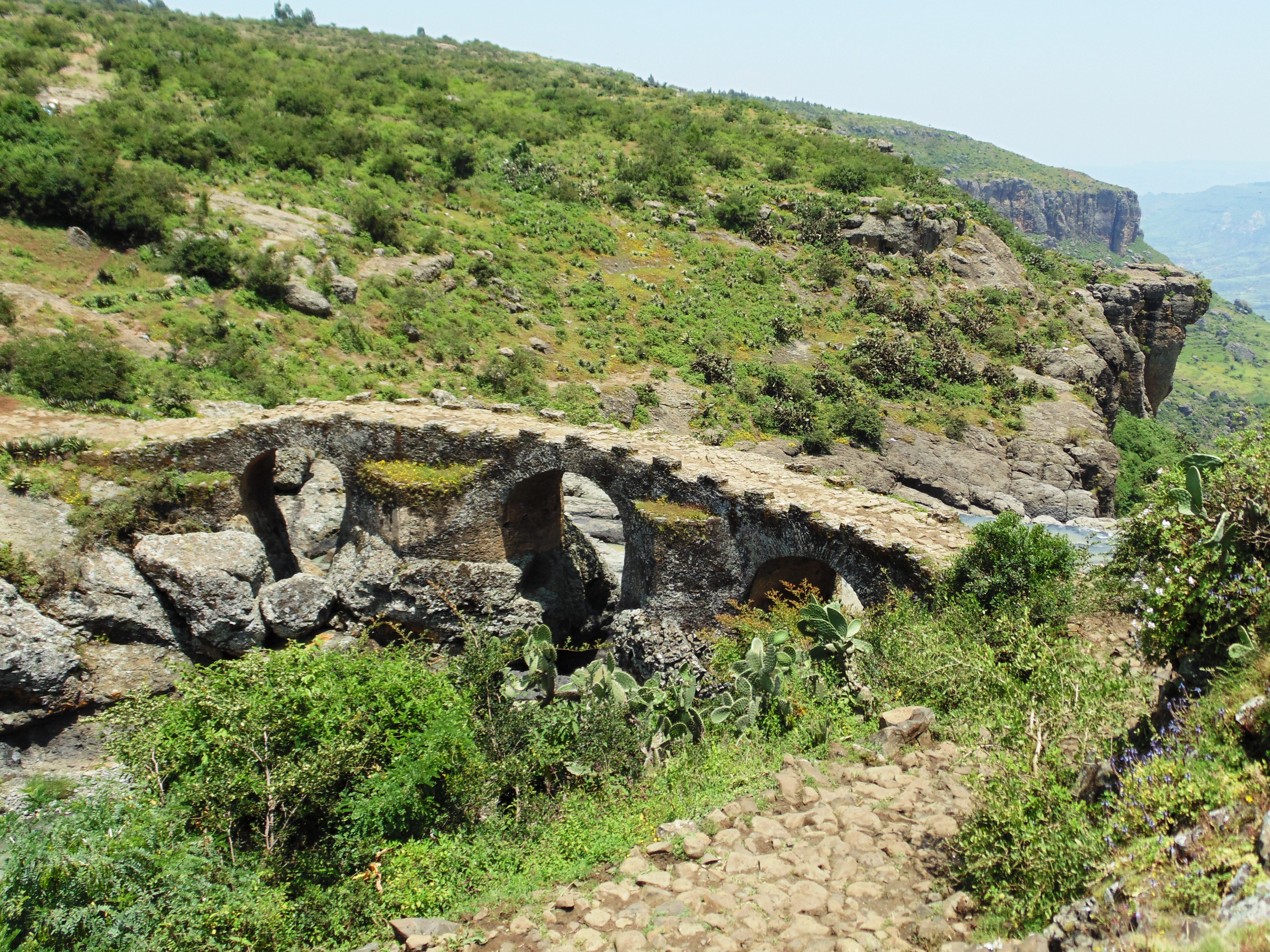 Ras Darge's Bridge near Debre Libanos, Ethiopia